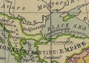 Edited from Wikipedia Image:Califate 750.jpg